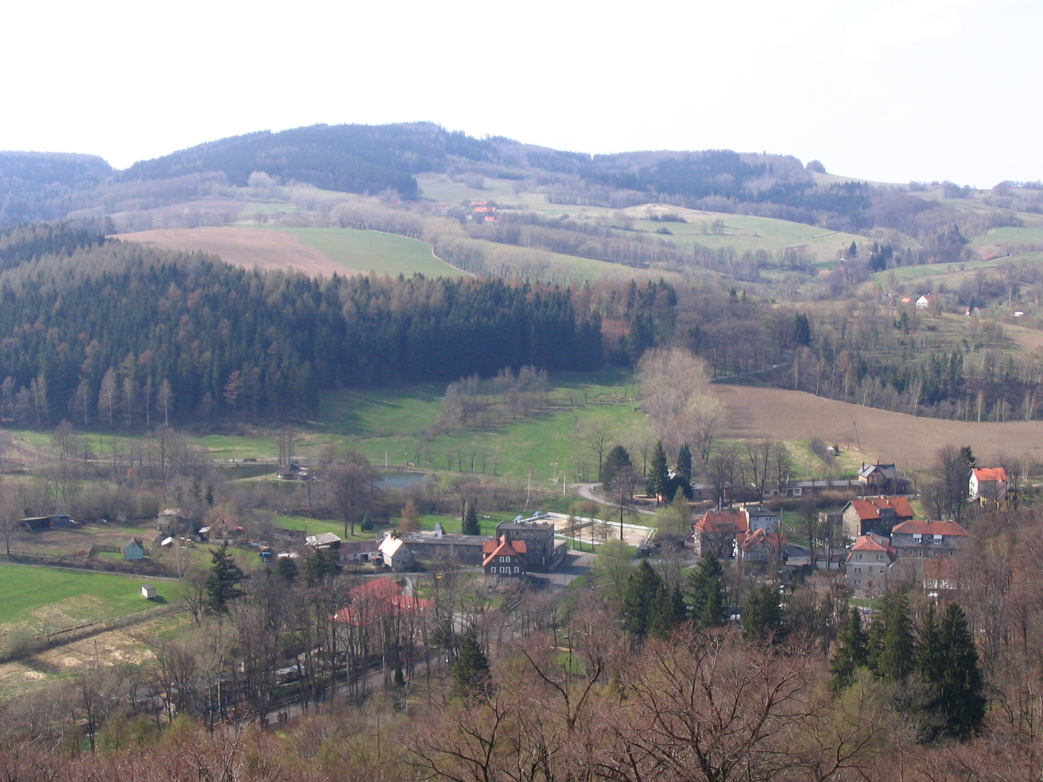 A view from castle's tower, Zagórze Śląskie, Poland, 2006 yr.